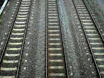 Railway tracks. (NOTE: Uploader says, in upload message, that this is his own photo. Also, he says that his uploaded images are PD, on this page: User:G-Man/photo_gallery, so I changed the tag from unverified to PD. Have notified uploader. This info was added by --Janke